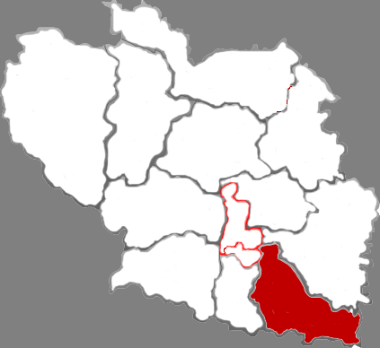 Location of Huguan county in Changzhi City, China